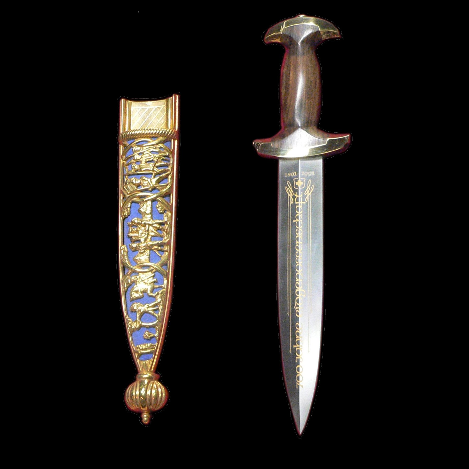 Swiss traditional poignard